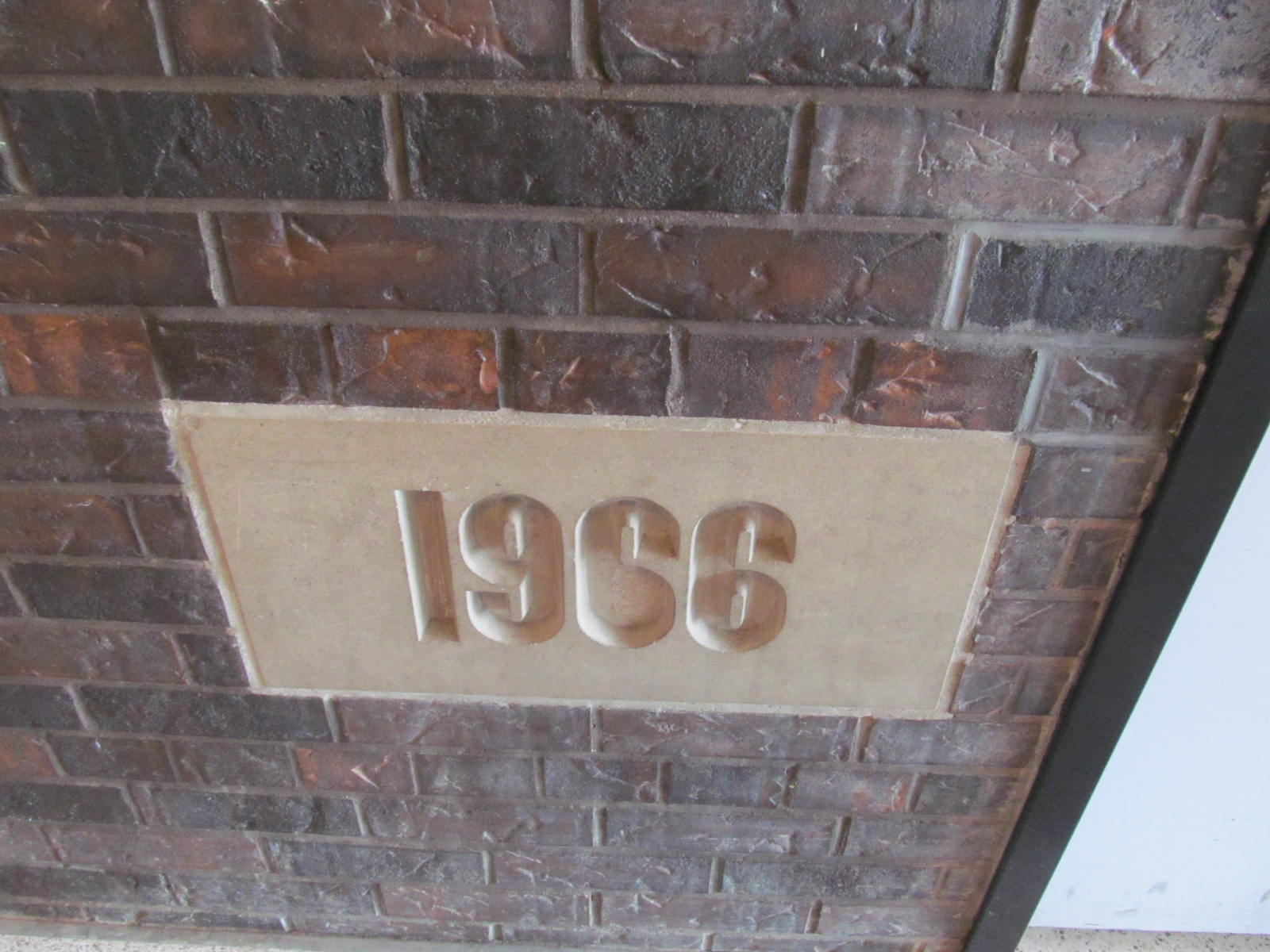 The "1966" datestone.